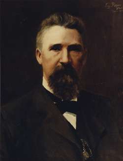 Picture of RJ Reynolds at 32 years of age.